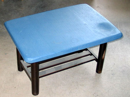 Coffee table